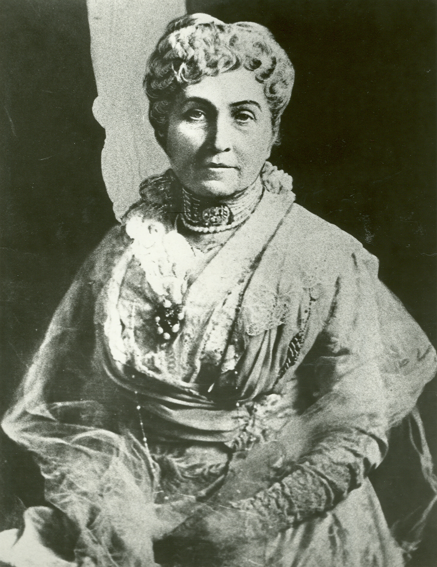 Phoebe Apperson Hearst (1842-1919)